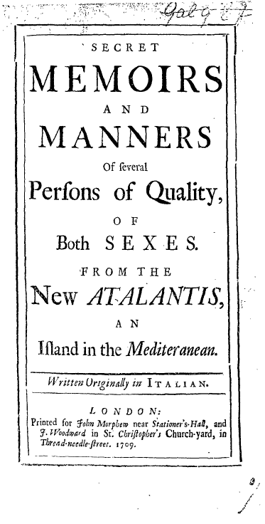 New Atalantis (not to be confuse with Bacon's New Atlatis) is a political satire by Delarivier Manley first published in 1709.